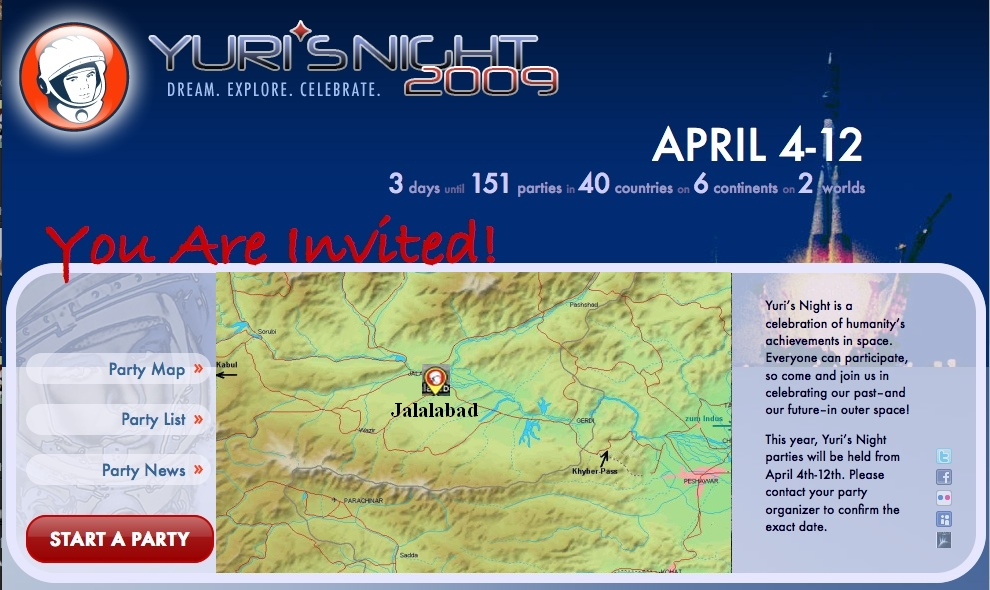 This image is a derivative image from File:Celebrating outer space in Jalalabad.jpg and File:Khyber-Pass.jpg. The original version of File:Celebrating outer space in Jalalabad.jpg included what looked like a screenshot of a google maps map. I cut and paste a free map in place of the apparently proprietary map. Original caption